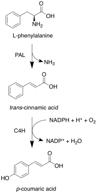 The first steps of angelicin biosynthesis